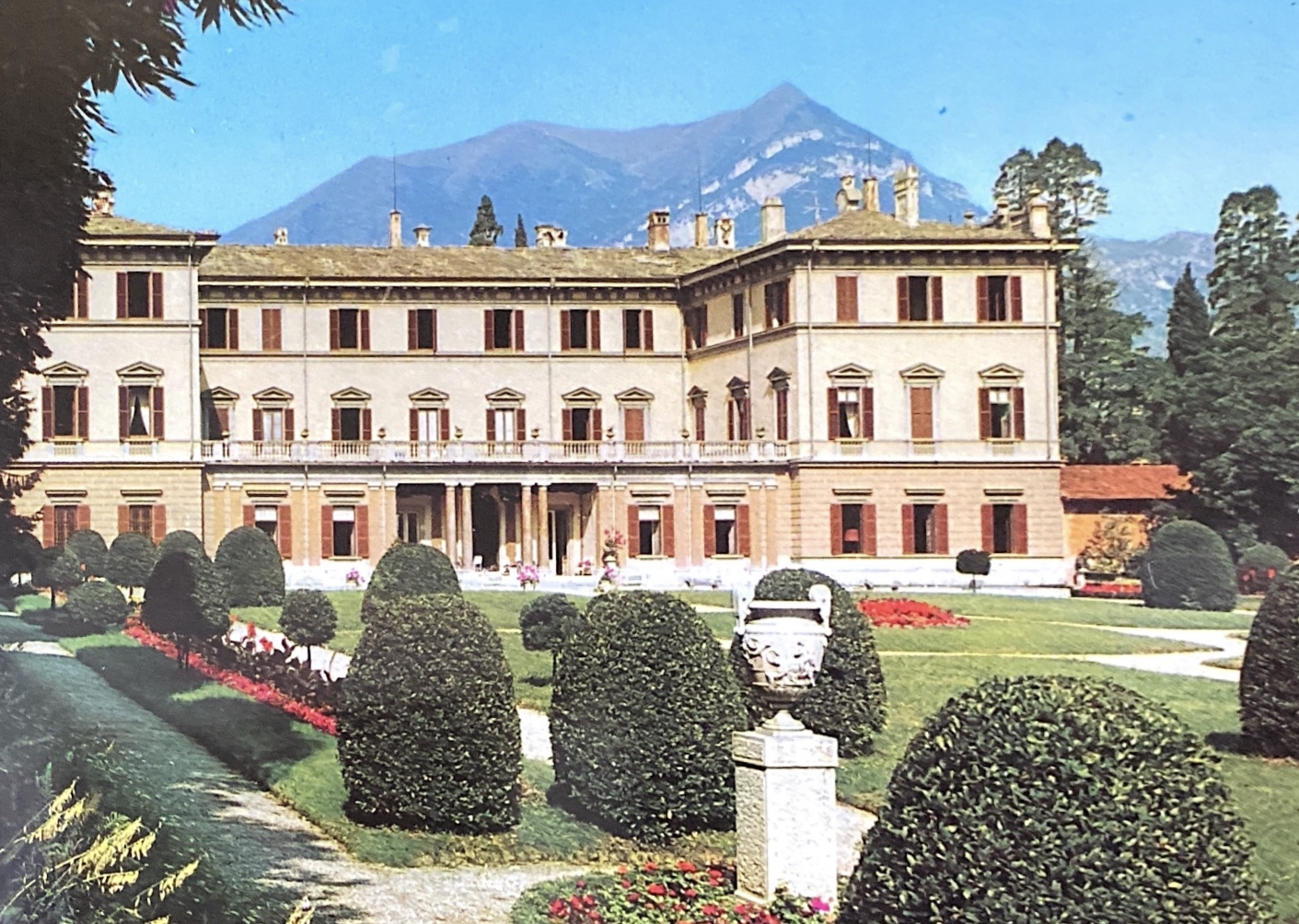 Villagiuliaretro